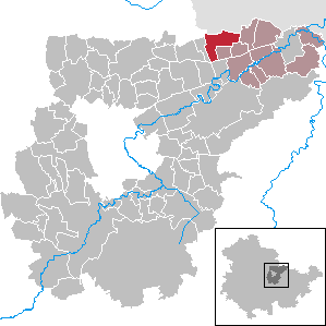 Gebstedt in Thuringia - District Weimarer Land